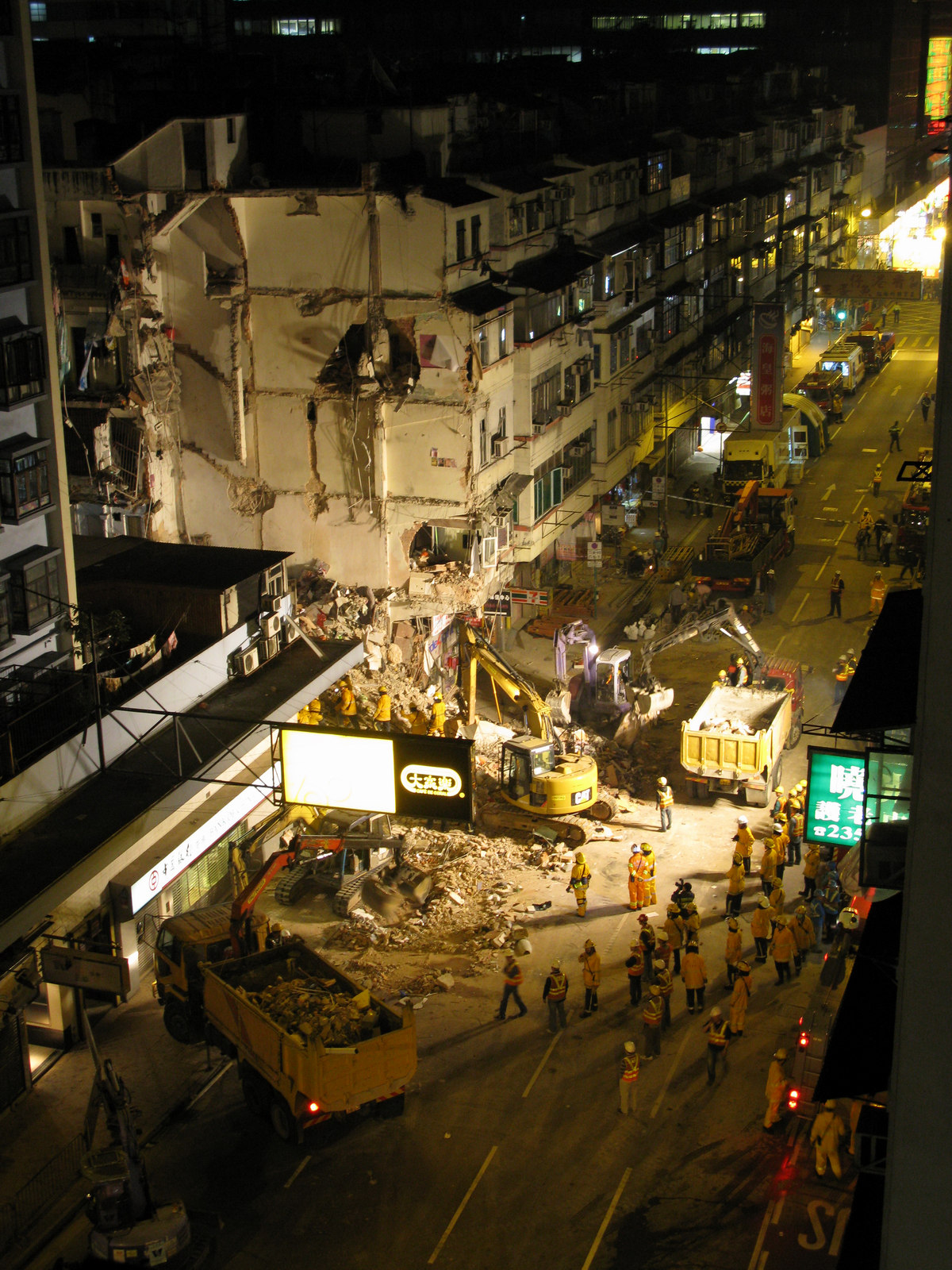 Tenement Building collapse in Ma Tau Wai Road, 2010-01-29